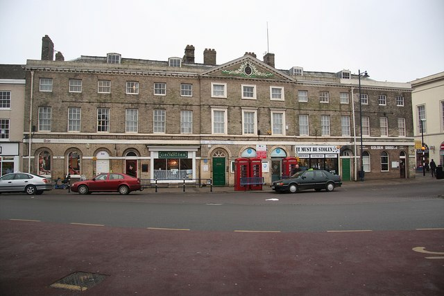 Boston Exchange Grade II* listed. Exchange buildings by Thomas Lumby 1769–72 for the Boston Corporation, knocked about in the 19th & 20th centuries with shop fronts inserted